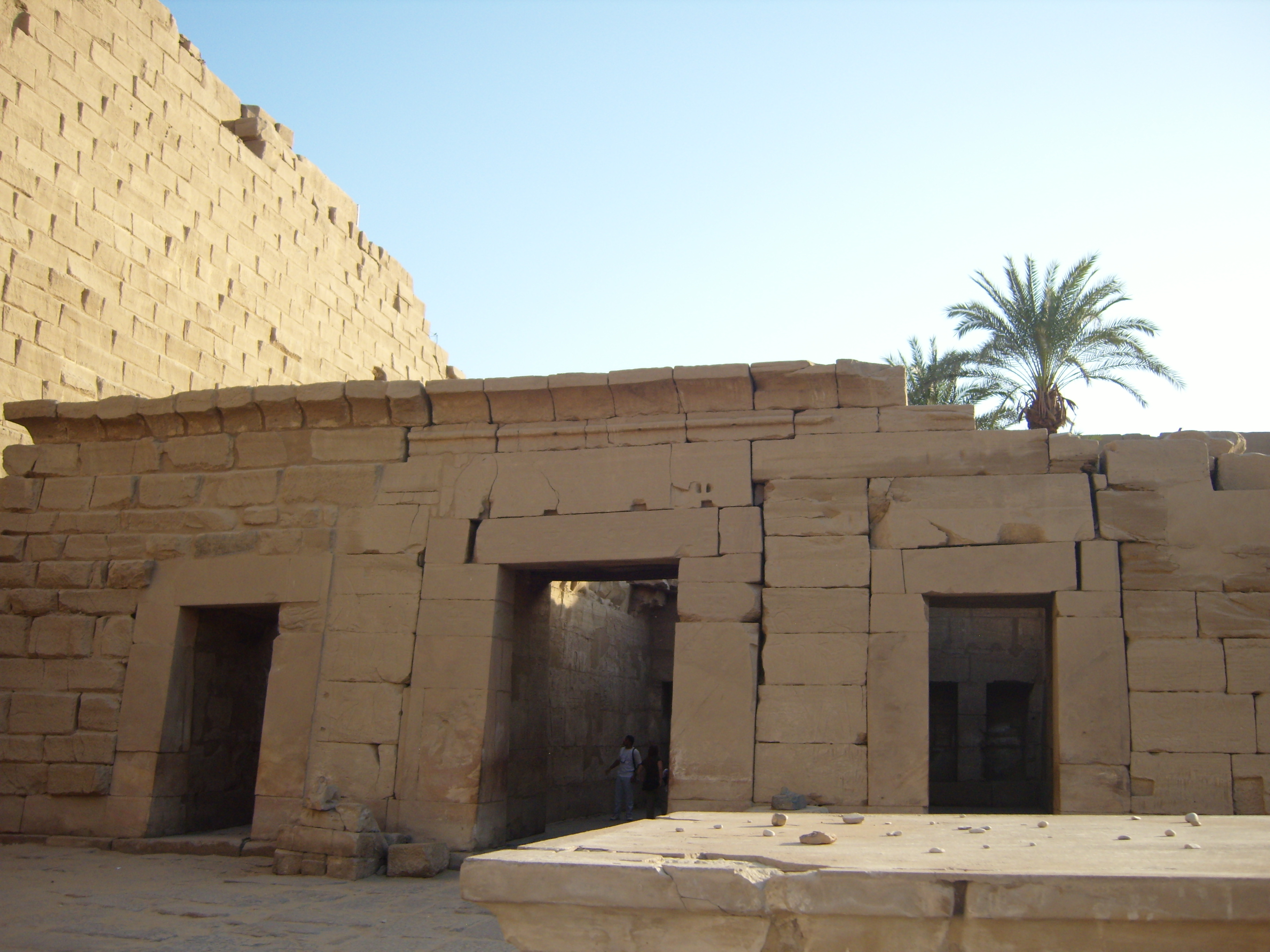 Sacret Bark - shrines of Seti II in Karnak temple complex, Egypt